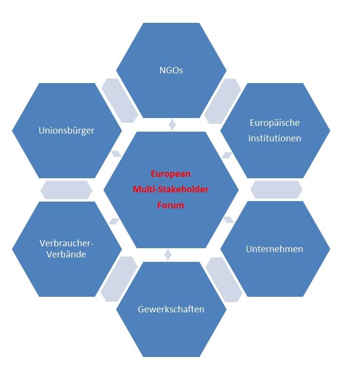 European Multi-Stakeholder Forum on Corporate Social Responsibility - Function